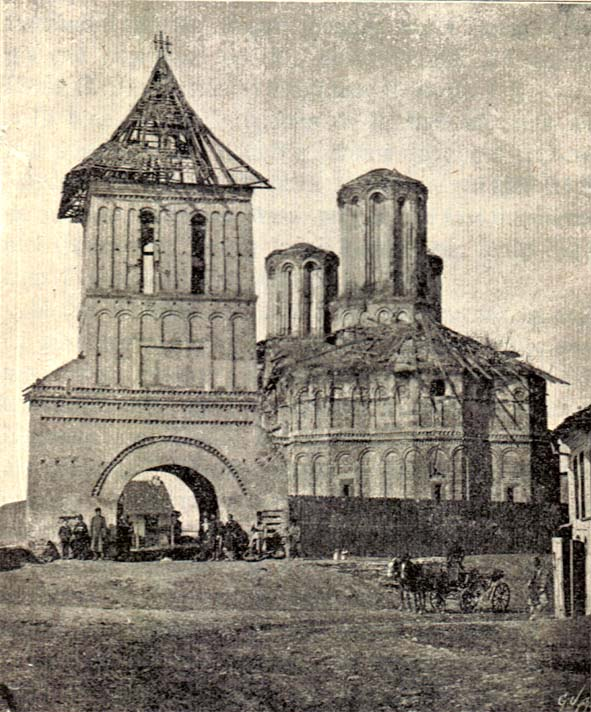 Craiova - St. Dumitru Church in 1800